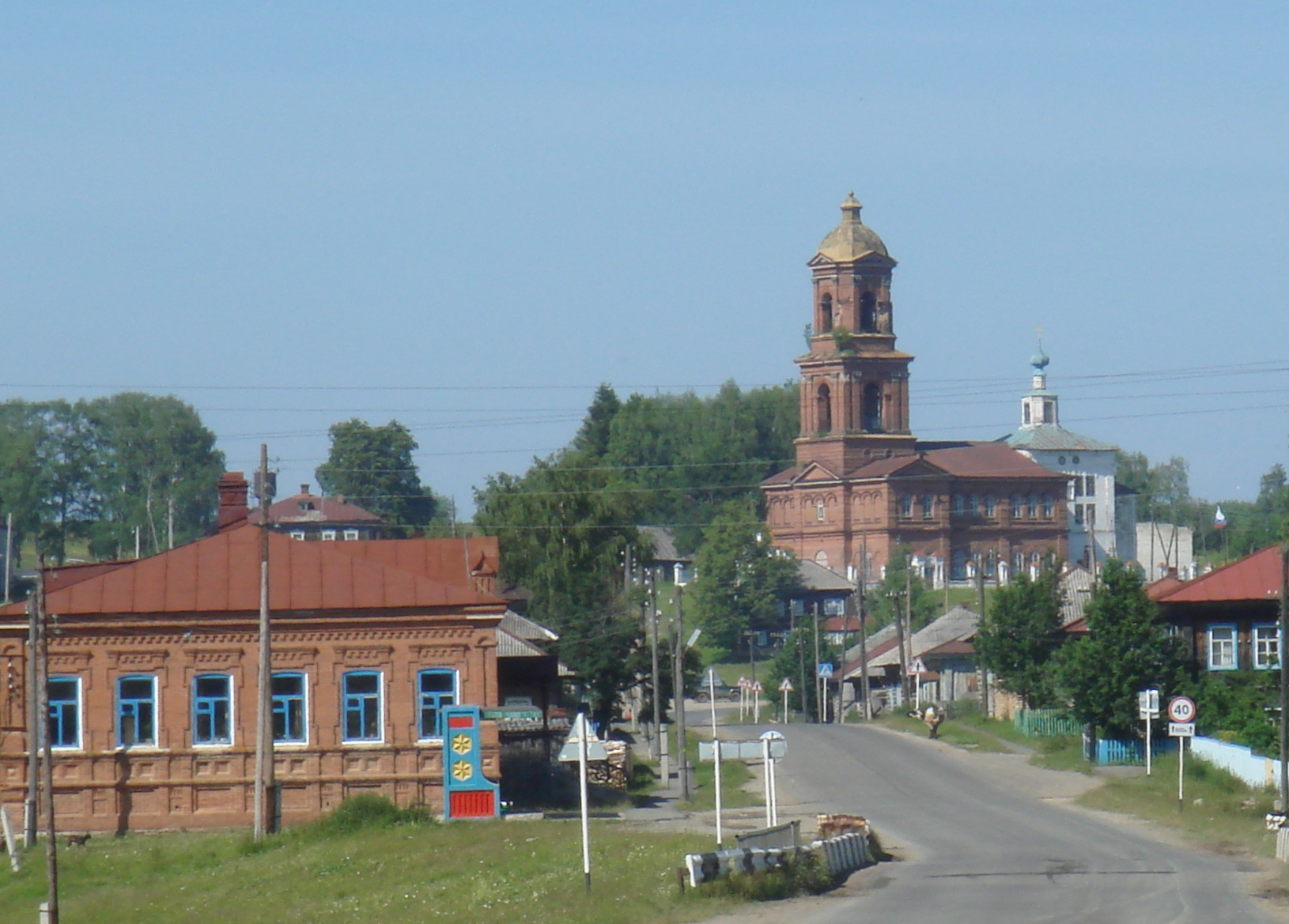 Vilgort, a village in Perm Krai, Russia